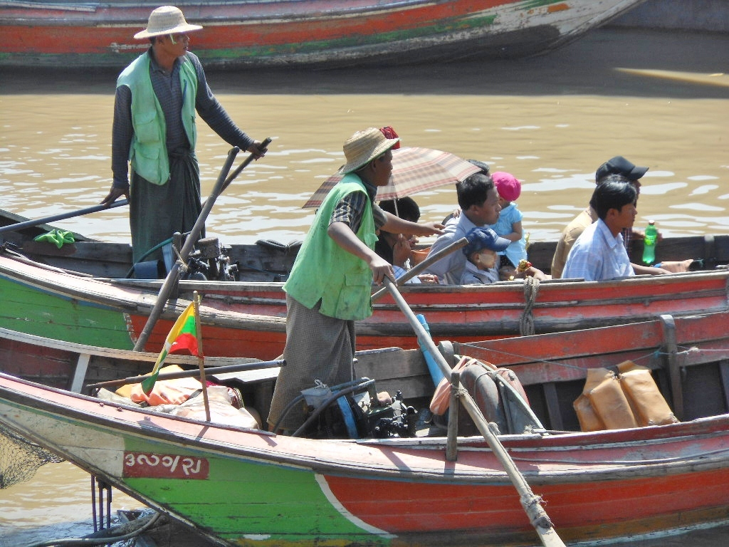 (note the luminous Oc Health and Safety vests!)